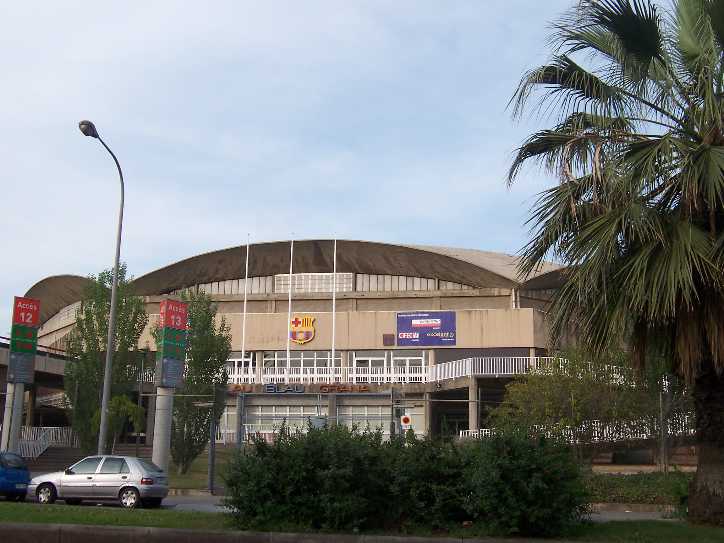 Blaugrana Stadium, in Barcelona.